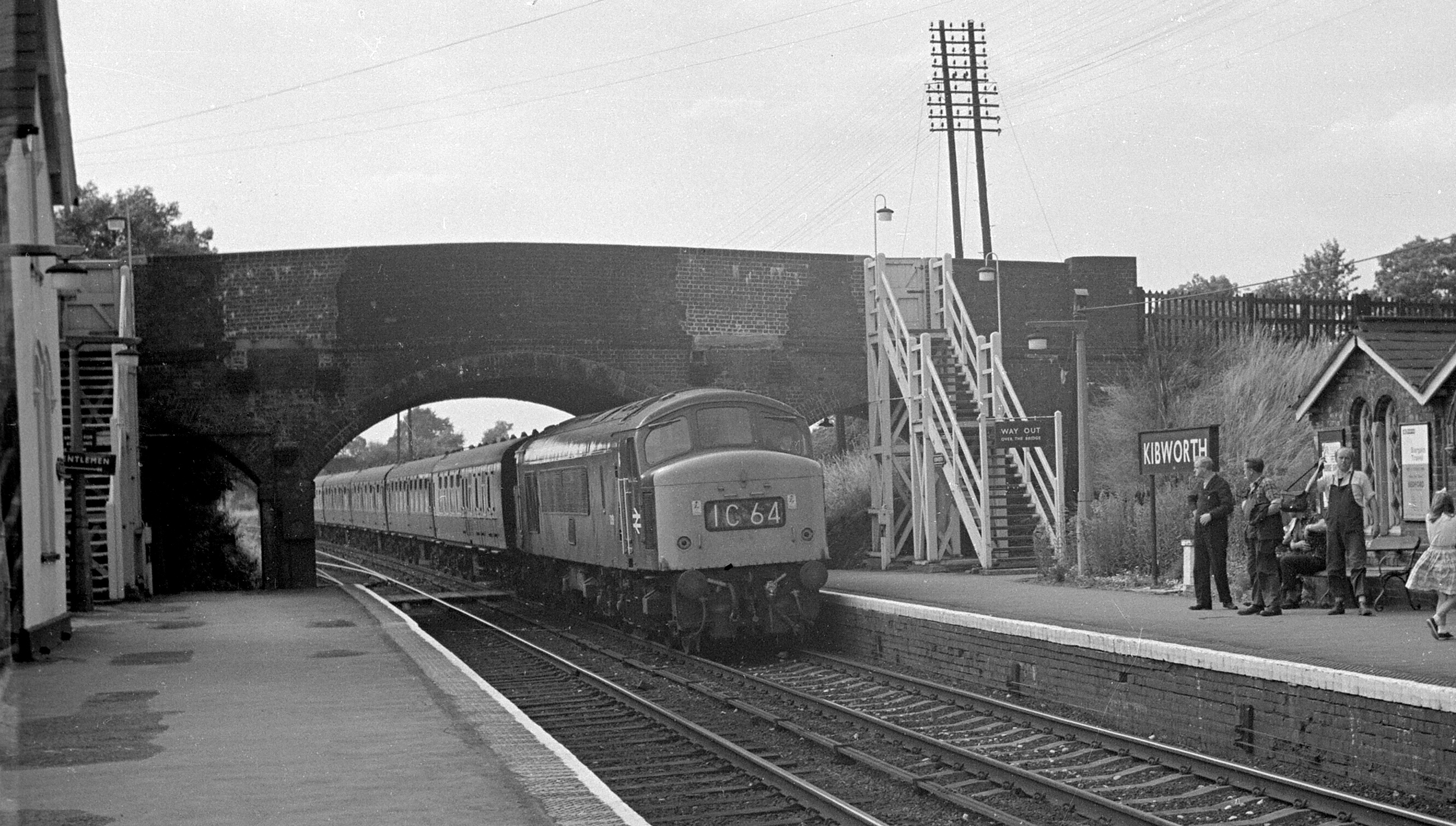 "Peak" 1-Co-Co-1 D151 on an up local train arriving at Kibworth station, 08/08/67.